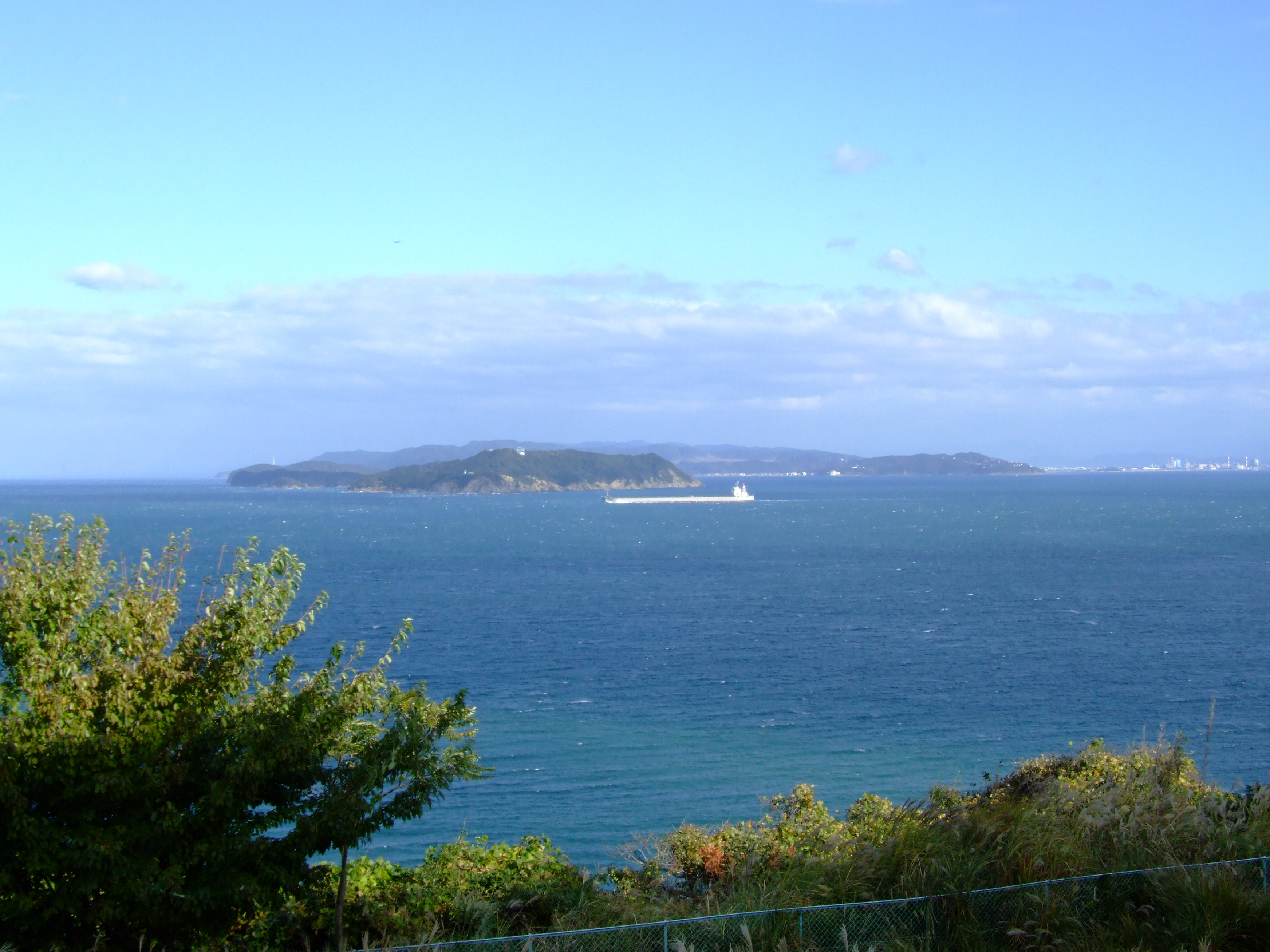 the view of Kitan-kaikyou(strait) from Oishi Park in Awaji-shima(island).